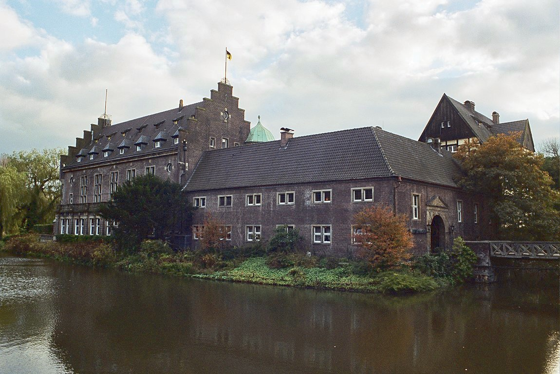 Wittringen Castle - northern aspect